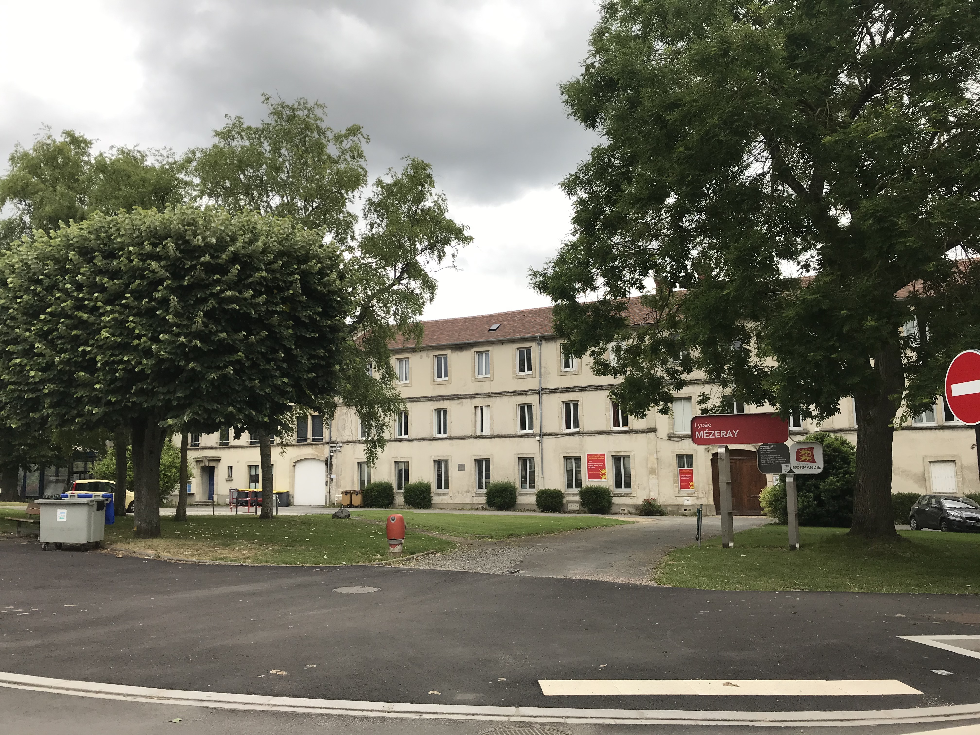 un établissement scolaire à Argentan